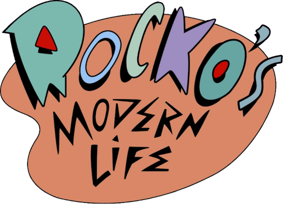 Logo for Rocko's Modern Life